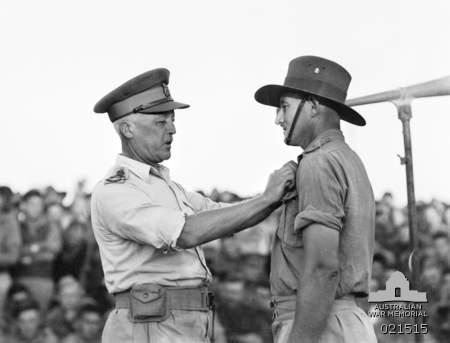 Syria. 1941-11. Brigadier Eric Clive Pegus Plant, Commander of the 25th Australian Infantry Brigade, pinning the Victoria Cross ribbon on Corporal James Hannah (Heather) 'Jim' Gordon.